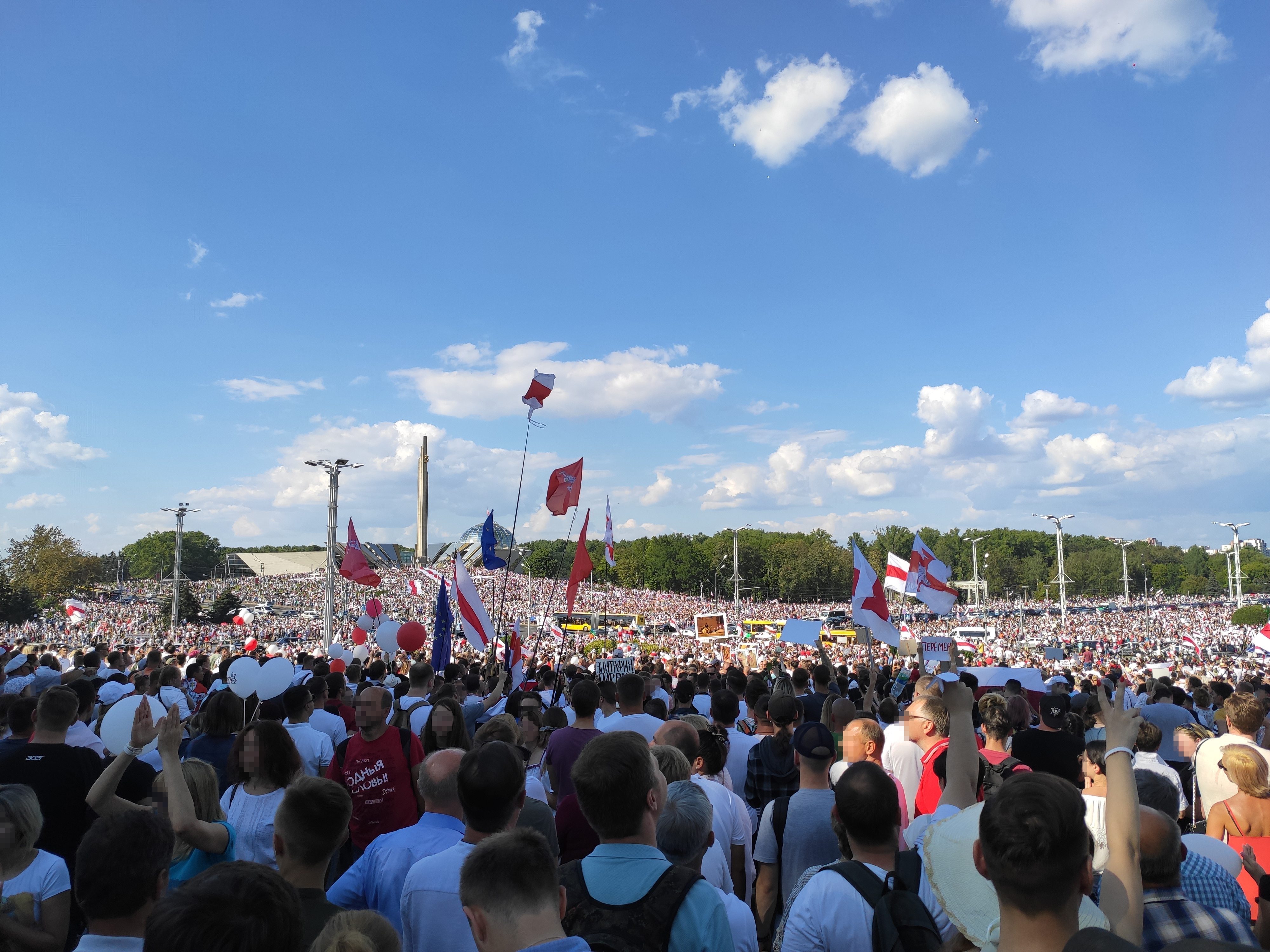 Protest against Alexander Lukashenko in Minsk 2020-08-16